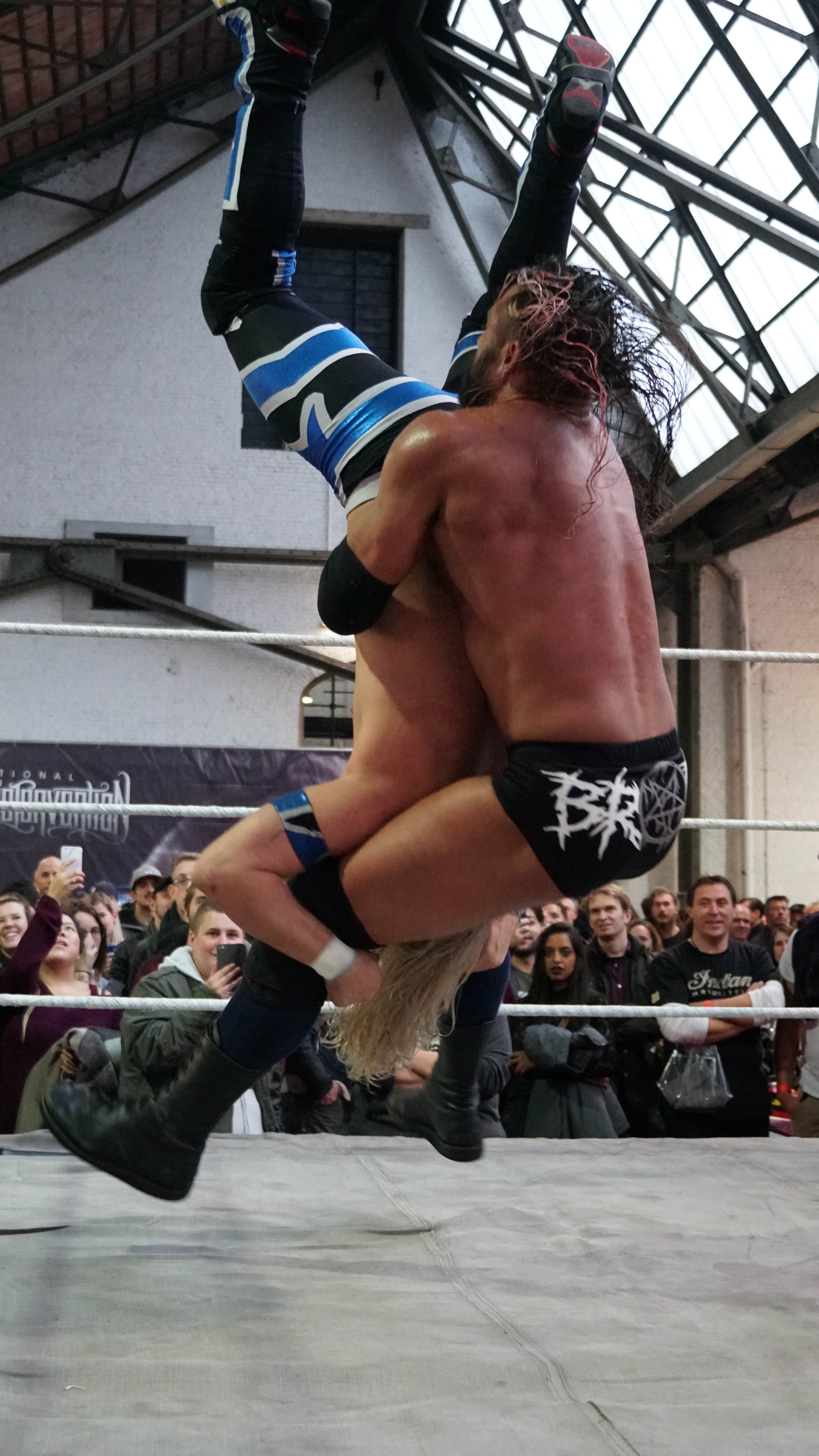 The International Brussels Tattoo Convention 2017 - Fight-League Pro Wrestling - Glen Alexander Vs Bram (c)Glen Alexander def. (Pin) Bram (c)For : For The Title (new Champ)( IBTC presente du 10 au 12 novembre 2017, la 8eme edition de la International Brussels Tattoo Convention. La convention sera honoree de la venue du modele'Makani Terror'.400 des meilleurs tatoueurs internationaux du monde sont invites a immortaliser sur votre corps leur plus beaux art du tatouage.Le week-end entier sera rempli de spectacles, des ventes aux encheres d'art, des boutiques sympas et des echoppes , des acrobates aeriens, des concours de tatouage et bien plus encore! )